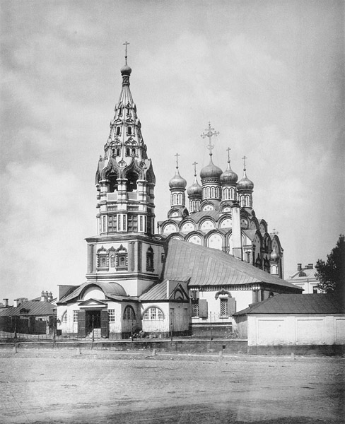 Church of St. Nicholas in Khamovniki, Moscow.